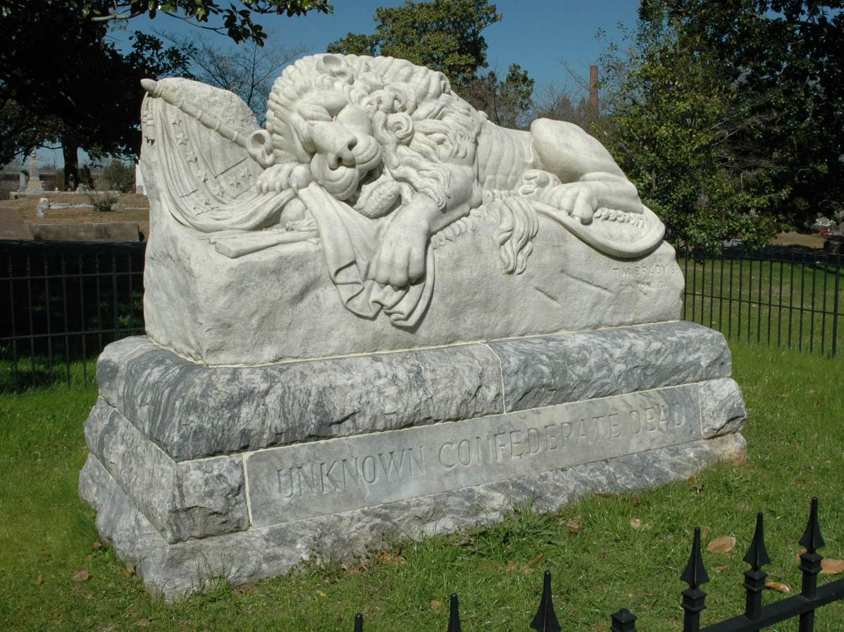 The "Lion of the Confederacy" sculpture watches over the unmarked graves of unknown Confederate soldiers interred in historic Oakland Cemetery in Atlanta, Georgia. The lion is a replica of the Lion of Lucerne, sculpted by Bertel Thorvaldsen. Photo taken with a Nikon D70.